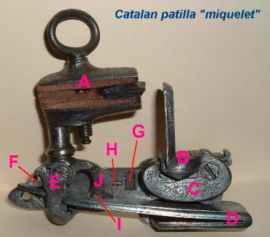 annotated miquelet lock showing key parts